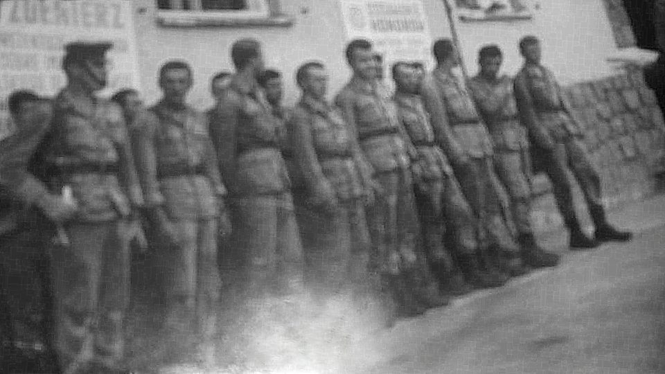 Border Protection Forces in Pokrzywna